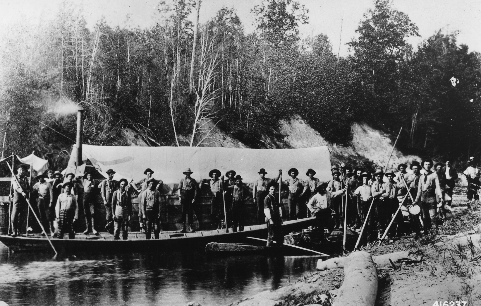 Scope and content: Original caption: Batteau crew, Muskegon River, 1888. Newaygo or Muskegon Co. MI.